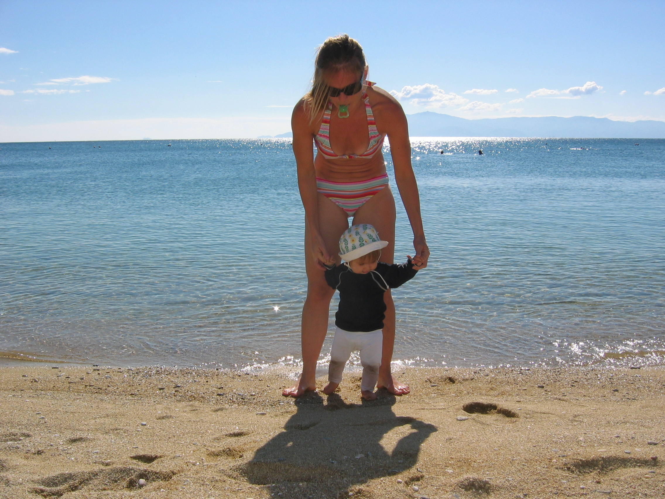 Mother with her child at the beach.